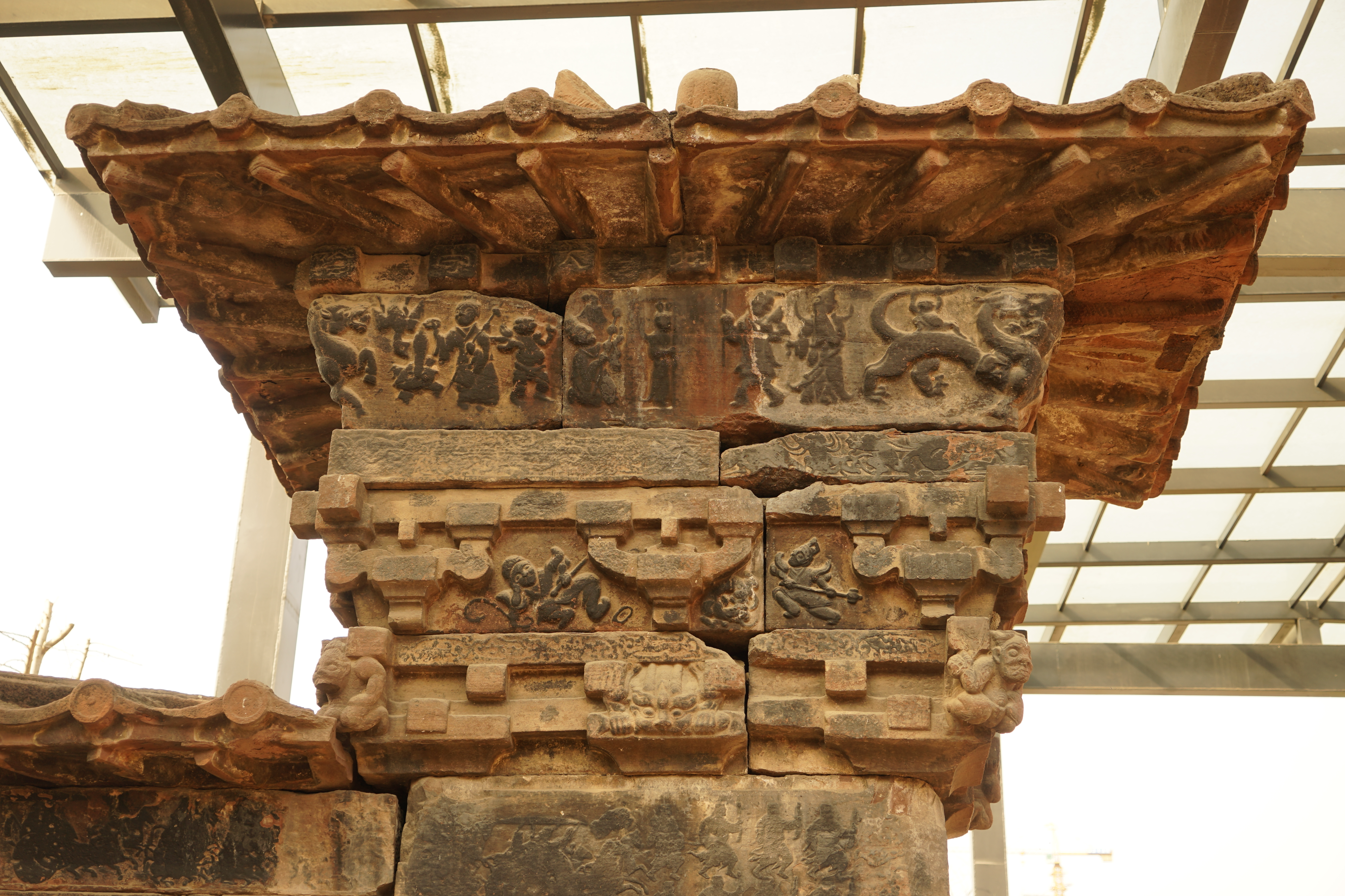 The Gaoyi Que, a tomb gate tower of the tomb of Gaoyi, built in 209 AD.